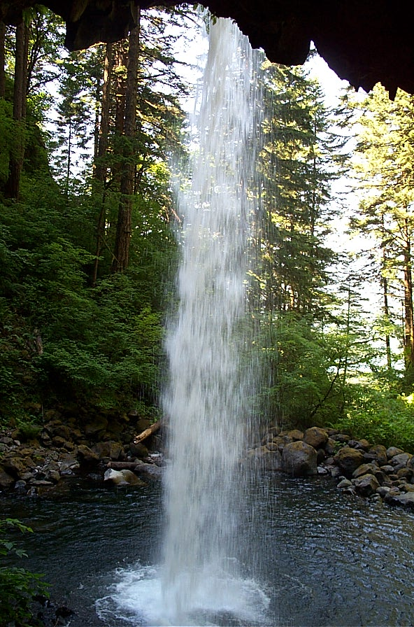 Upper Horsetail Falls in the Columbia River Gorge in Oregon, seen from behind. This picture was personally taken in July 2003.